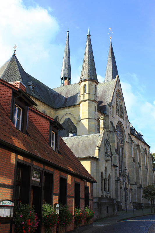 St. Pantaleon Church in Muenster-Roxel, east side